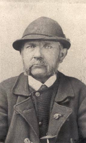 The german climber Sebastian Abratzky (1829-1897)